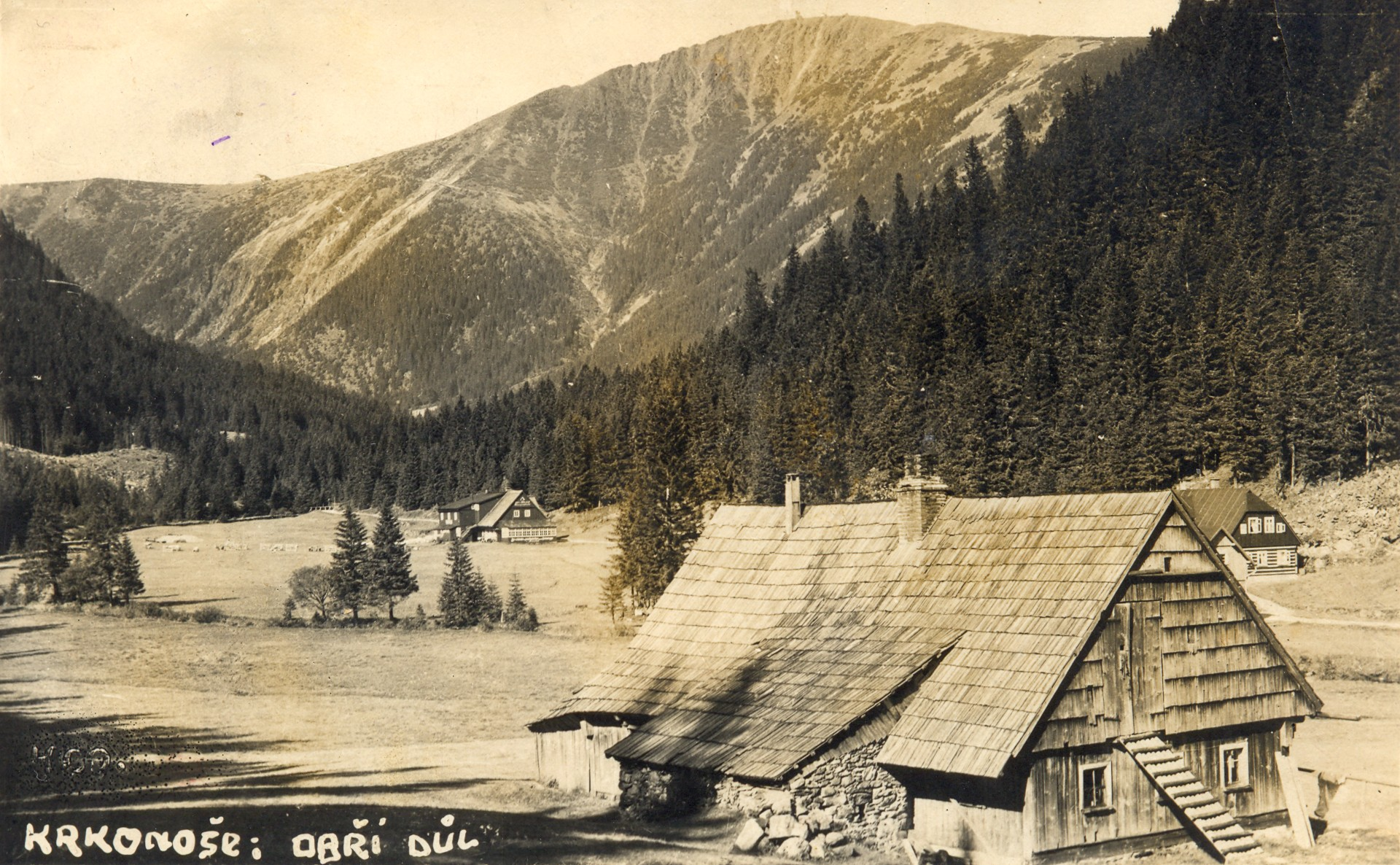 Obří důl